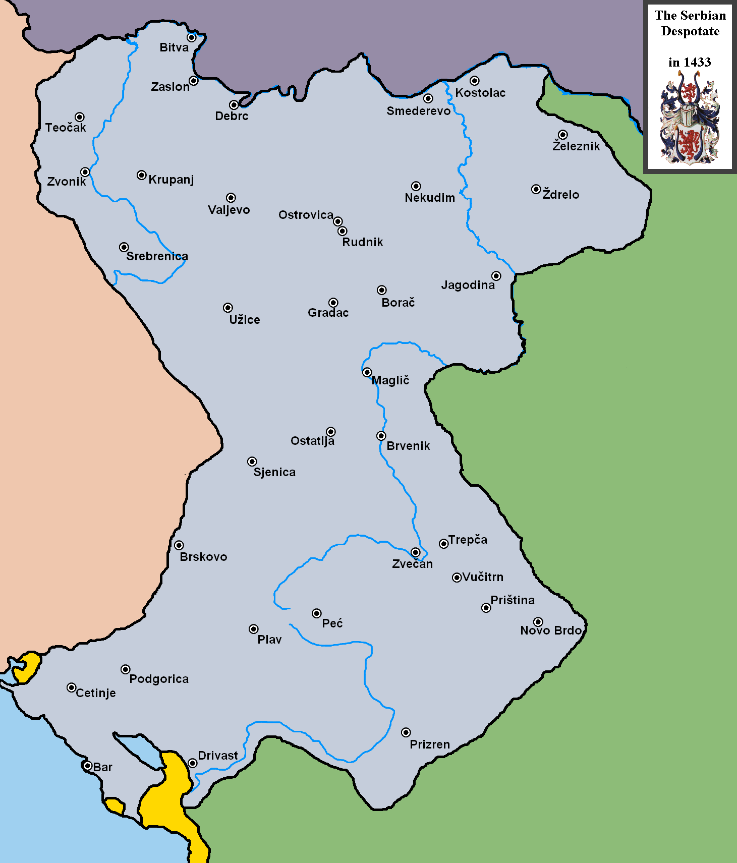 Source: Andrija Veselinović, Država srpskih despota, Belgrade 2006 Istorijski Atlas (Zavod za udžbenike i nastavna sredstva), Belgrade 2004